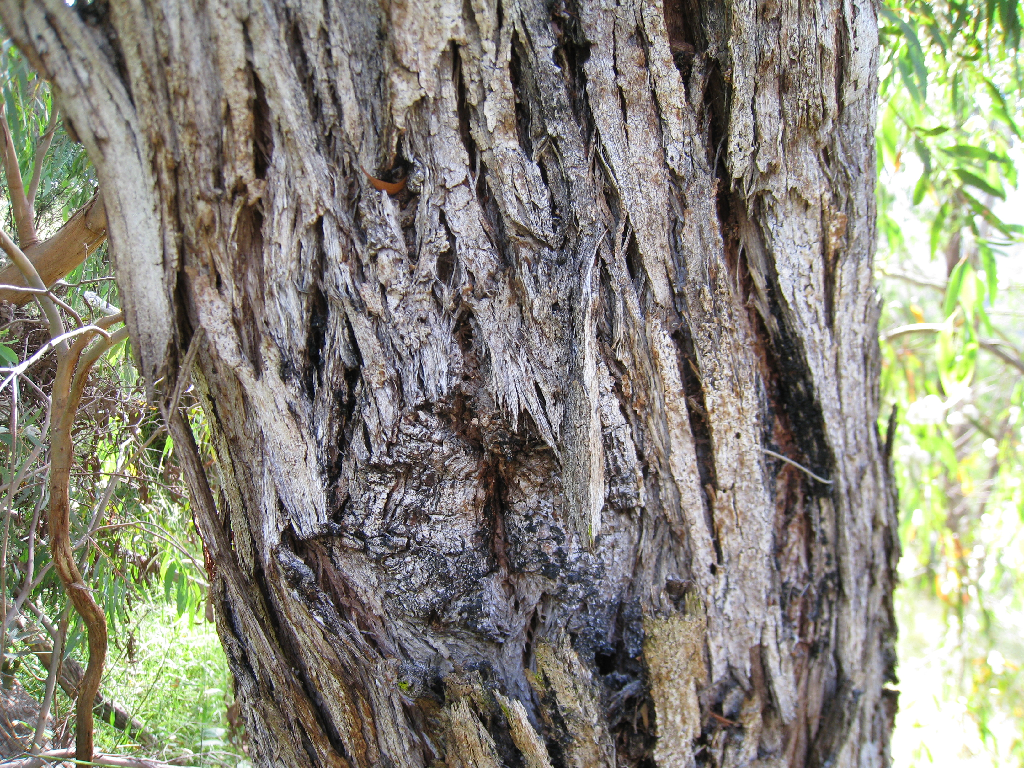 Bark of the Narrow-leaved peppermint, Eucalyptus radiata. Dargo VIC Australia, January 2011.